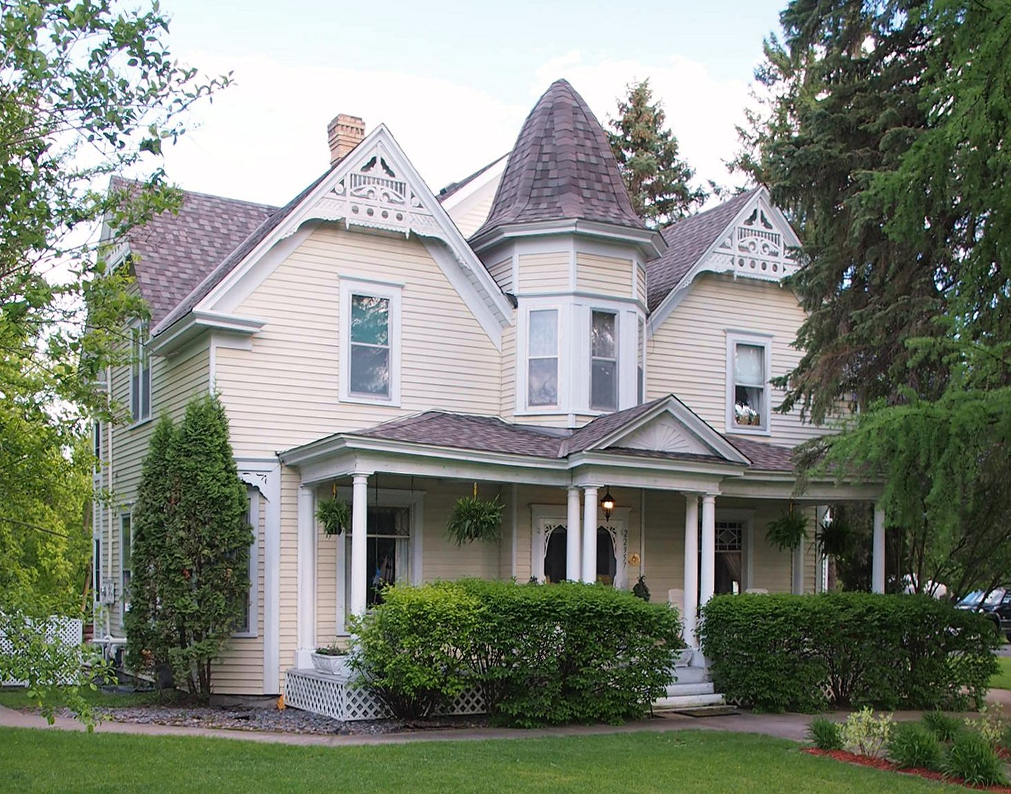 H. G. Leathers House, 22957 Rum River Blvd, St Francis, Minnesota, USA. Viewed from the northwest.